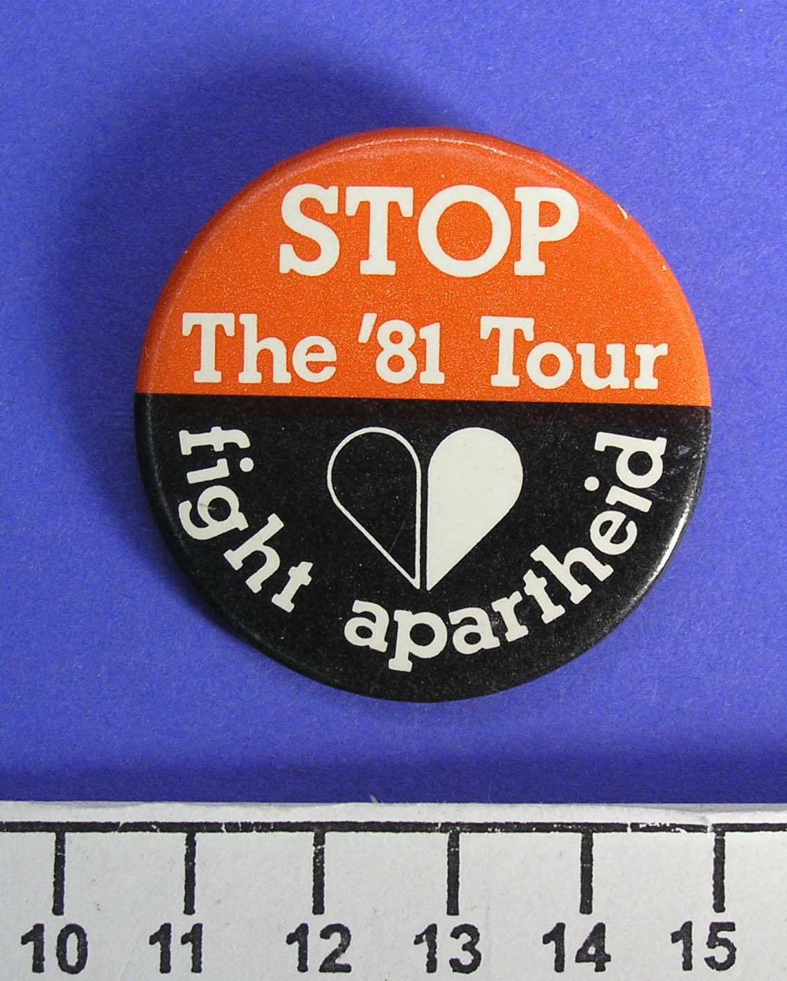 Protest badge, 'Stop the '81 Tour fight apartheid', issued in New Zealand by HART (Halt All Racist Tours) button badge; red top half, black bottom half with white text- STOP - The '81 Tour above HART symbol; "fight apartheid"; safety pin fastening; inscribed on reverse- EYP LID - BOX 48004 AK